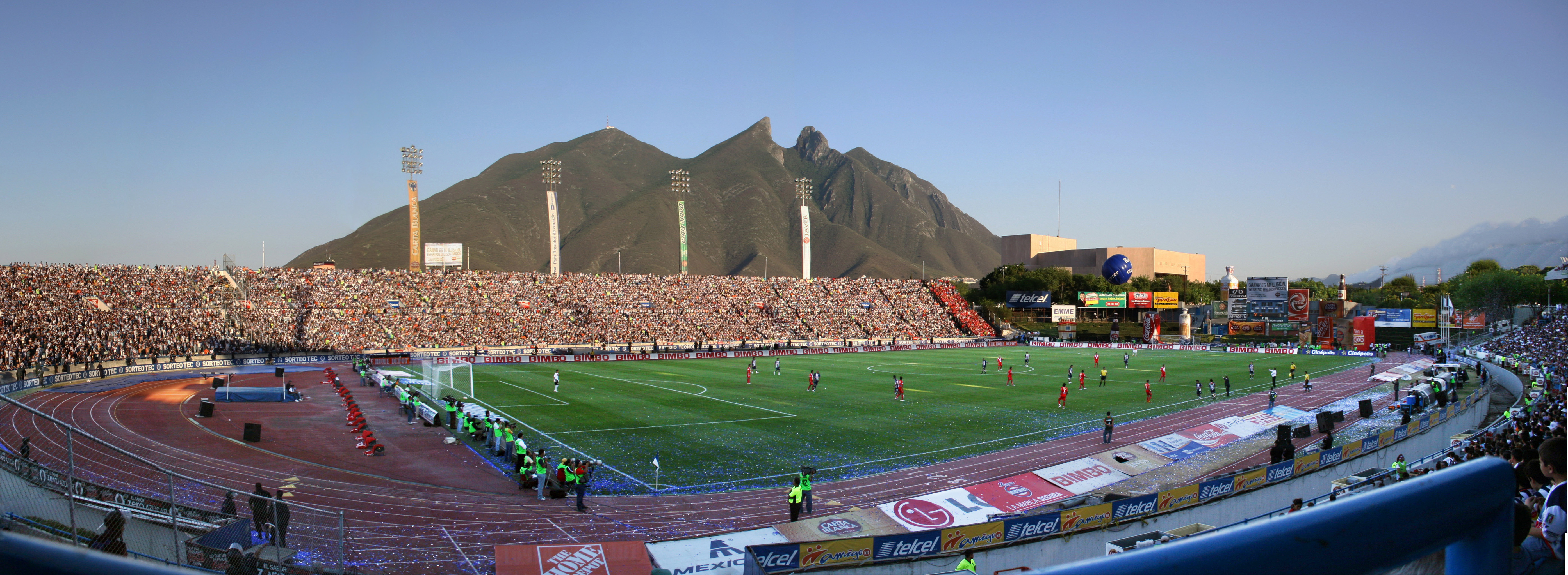 The Monterrey Institute of Technology and Higher Education's Tecnológico Stadium in Monterrey, Mexico, during a professional football (soccer) match.